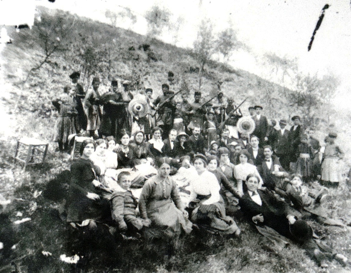 Villagers, Vlachs, on a festival in the courtyard of the church "St. George", in the village Magarevo. 1913 This media file is produced by Wikipedian in Residence in Category:Wikipedian in Residence at DARM in 2016.